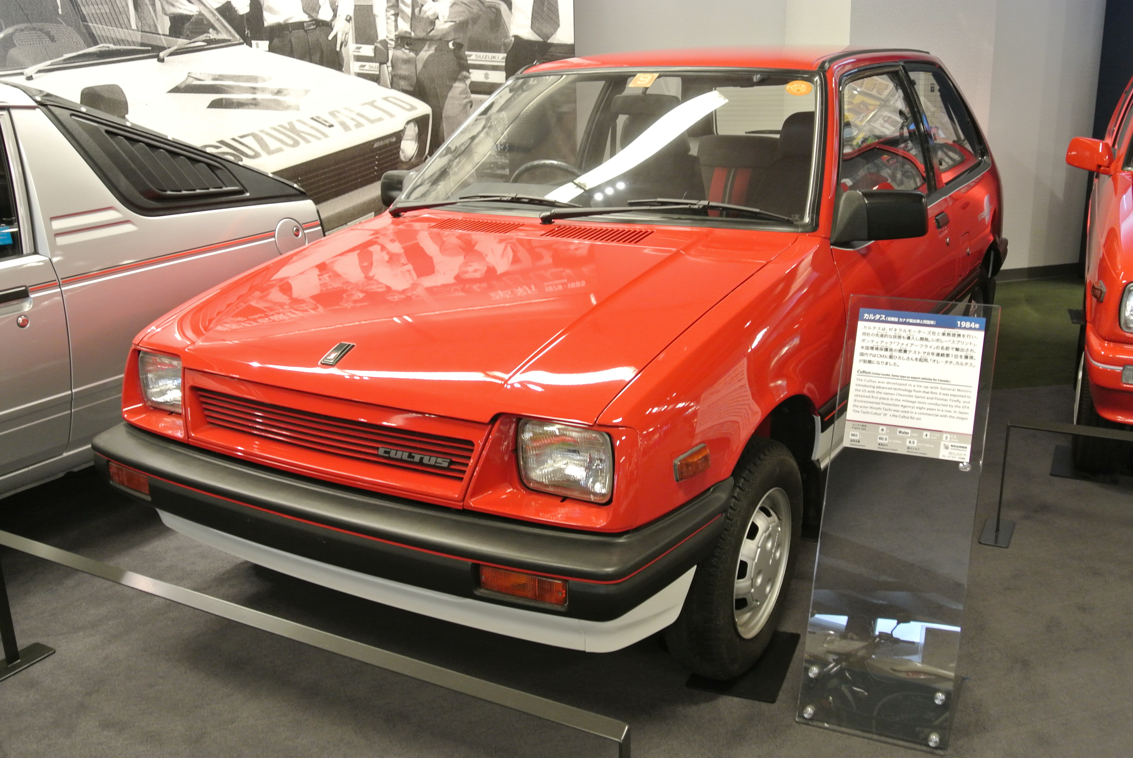 1984 Suzuki Cultus in the Suzuki History Museum.